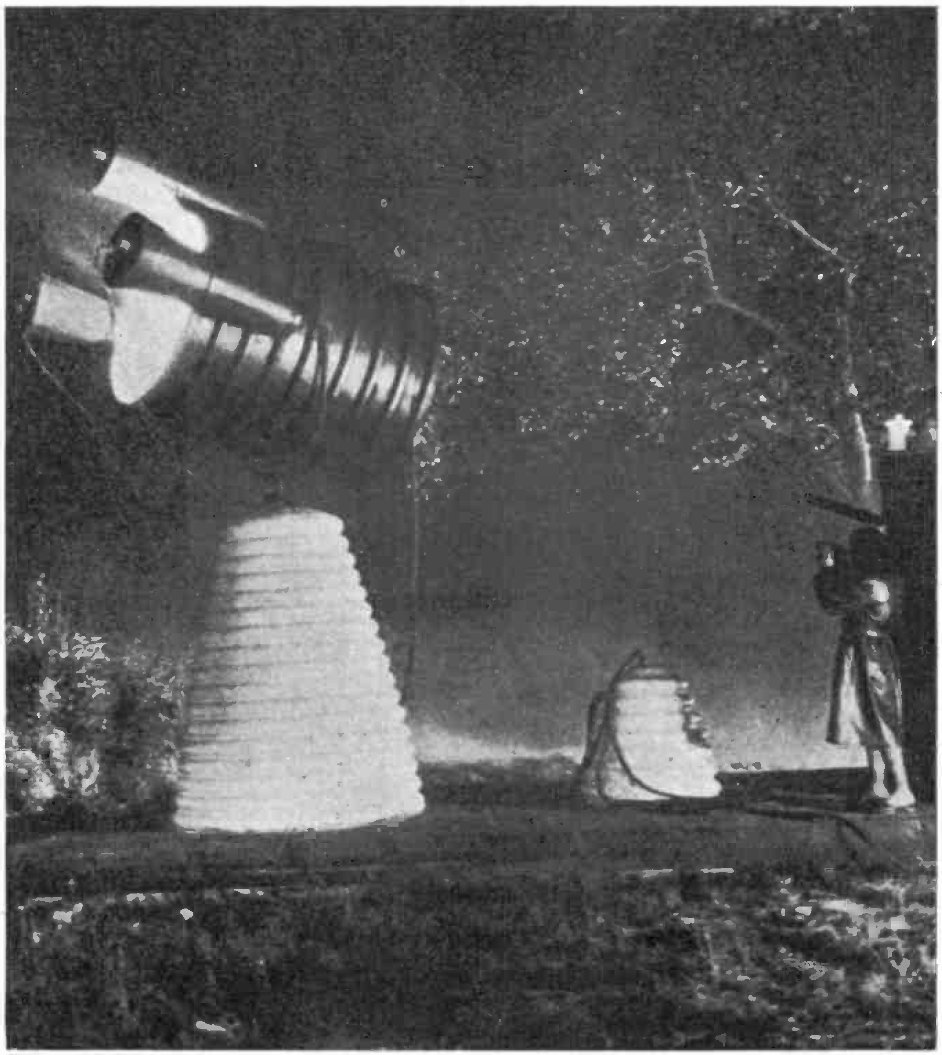 Picture of a purported "death ray" invented by British engineer Harry Grindell Matthews from a 1925 radio magazine. In 1921 Grindell-Matthews claimed to have invented a ray that would stop a magneto. In a demonstration to some select journalists he purportedly stopped a motorcycle engine from a distance. He claimed that with more power it could shoot down airplanes, explode gunpowder, stop ships and incapacitate infantry from a distance of 4 miles. He refused to say how the ray worked or allow anyone to examine it. In 1924 the British War Office contacted him and asked for a demonstration. He didn't answer them, but in a demonstration to a newspaperman reportedly ignited gunpowder. The popular media was fascinated with him and he became a celebrity. The British He went to France, then the United States, threatening to sell it to a foreign power if the British did not meet his terms. Despite his claims to have "8 offers" for his device, and several subsequent false announcements, apparently no government agency would invest. By the time this picture was published, he was working for Warner Brothers movie studio. A 1924 film The Death Ray by Pathé shows Grindell-Matthews operating a (fictional) death ray cannon; this picture may have been taken from that film. Caption:"CARRIER RAYS THAT KILL. A spectacular night-demonstration of the "death ray" apparatus of H. Grindell-Matthews (described in detail by the inventor for the first time in Popular Radio) was recently held on the island of Flatholme in England. The inventor states that this machine is now capable of projecting its death-dealing powers more than 3,000 feet. "